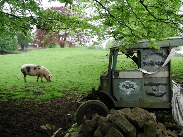 Live pig, dead truck Old Spot pig grazing near a long-abandoned truck in a field on the edge of Somerby village next to the Pickwell road.